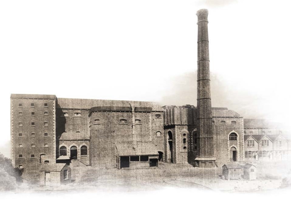 Photograph of DWD Distillery Buildings under construction circa 1872 -1873